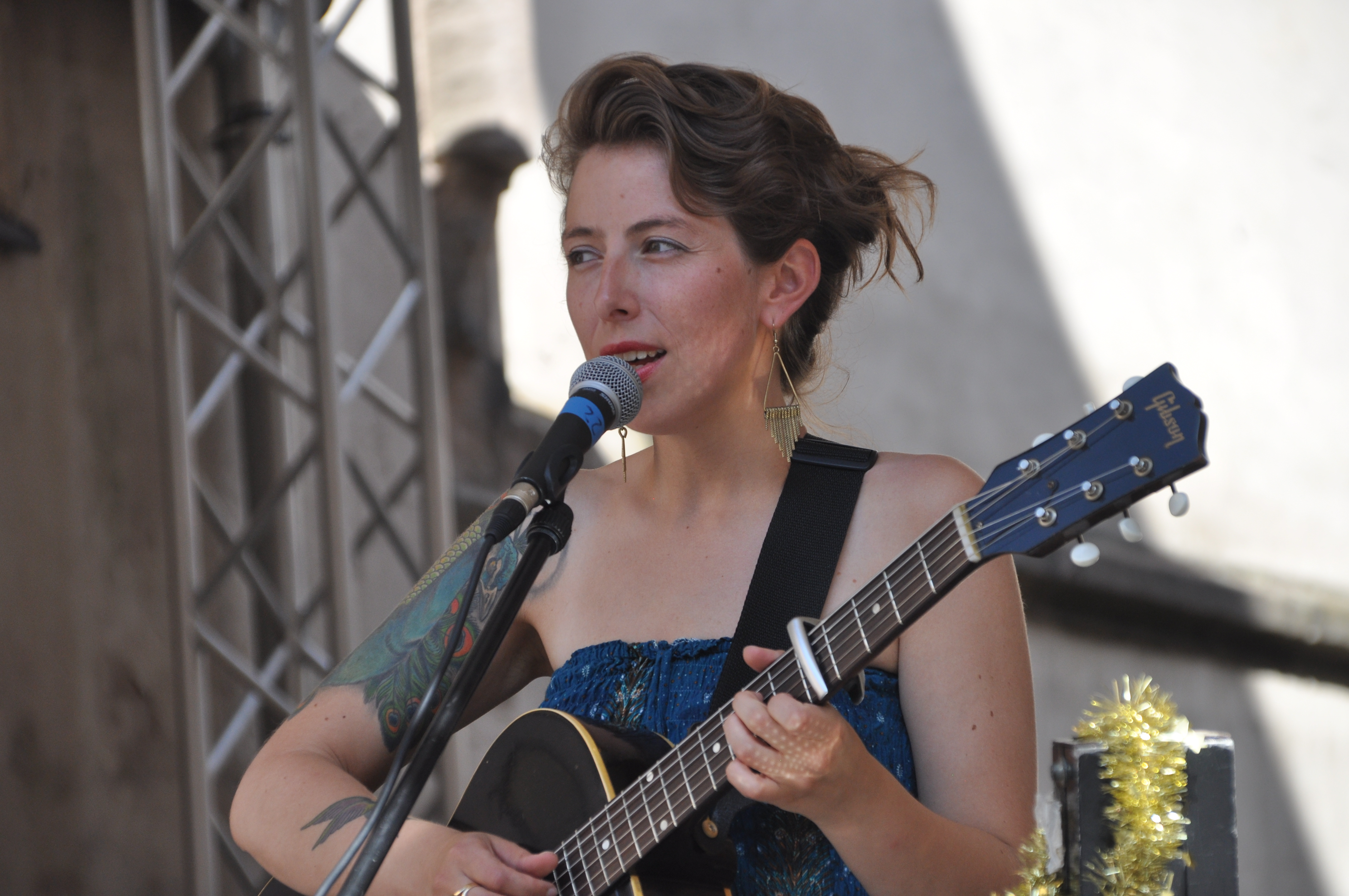 Guðrið Hansdóttir (Faroes), appearance at the 38th music festival "Bardentreffen" 2013 in Nuremberg, Germany, St. Katharina stage